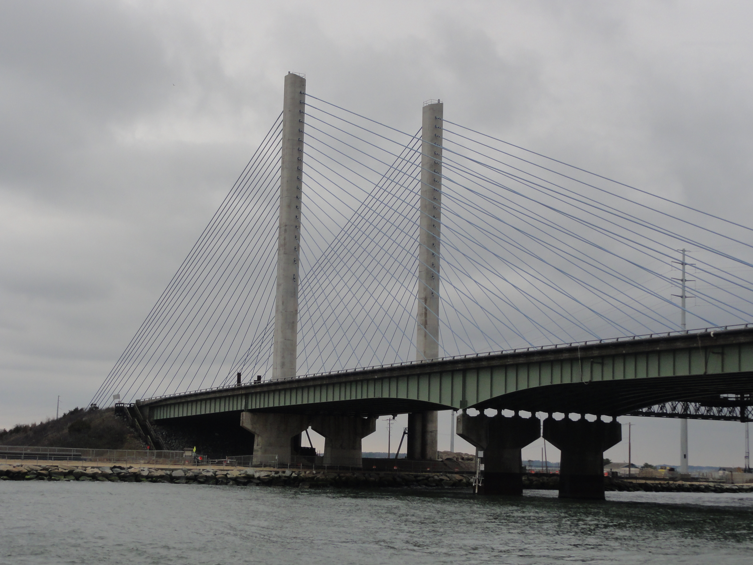 Indian River Inlet Bridge (Charles W. Cullen Bridge), Sussex County, Delaware